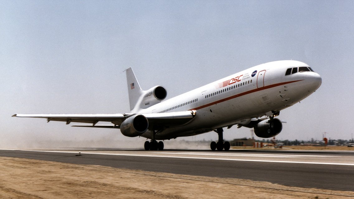 Bearing the logos of the National Aeronautics and Space Administration and Orbital Sciences Corporation, Orbital's L-1011 TriStar lifts off the Meadows Field Runway at Bakersfield, California, on its first flight May 21, 1997, in NASA's Adaptive Performance Optimization project. Developed by engineers at NASA's Dryden Flight Research Center, Edwards, California, the experiment seeks to reduce fuel consumption of large jetliners by improving the aerodynamic efficiency of their wings at cruise conditions. A research computer employing a sophisticated software program adapts to changing flight conditions by commanding small movements of the L-1011's outboard ailerons to give the wings the most efficient - or optimal - airfoil. Up to a dozen research flights were planned in the initial and follow-on phases of the project over several years.